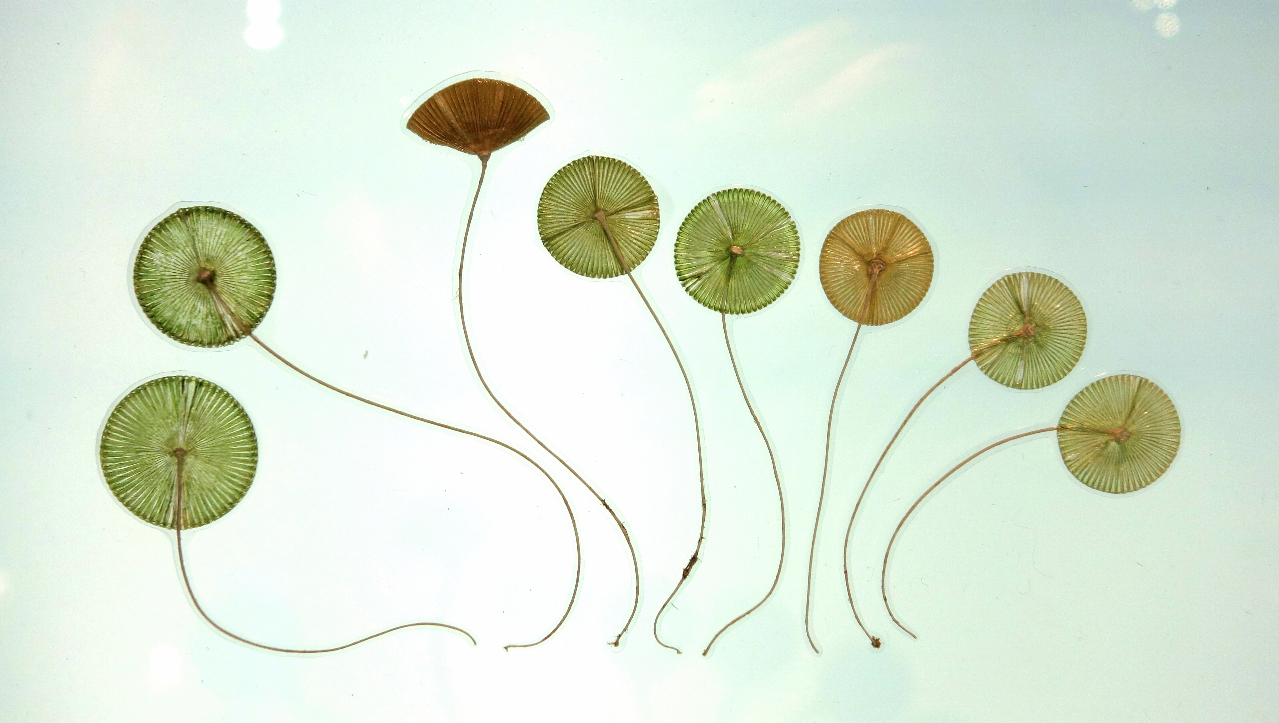 Exhibit in the National Museum of Nature and Science, Tokyo, Japan.